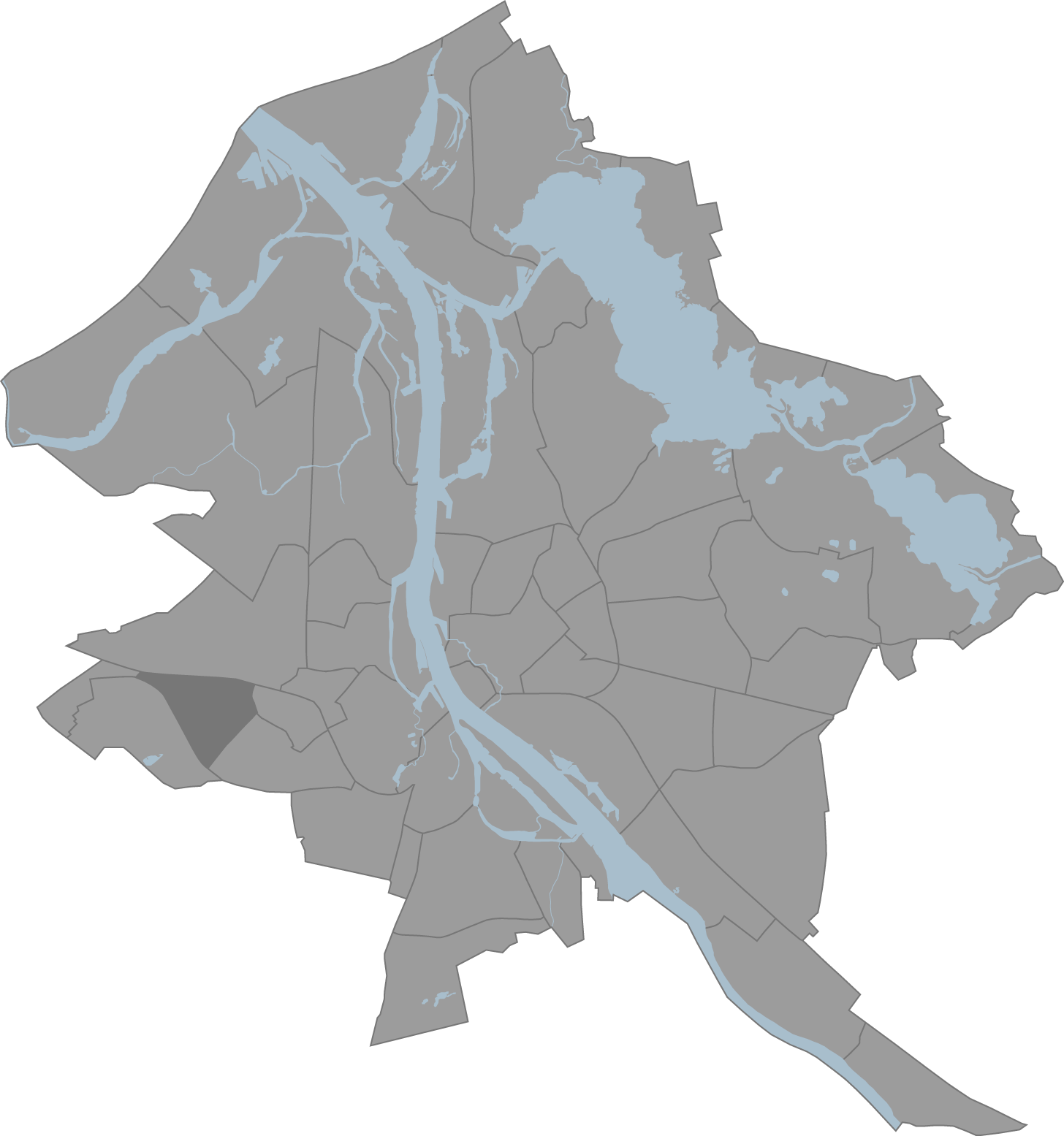 A map of Riga, Latvia with the eponymous commune highlighted